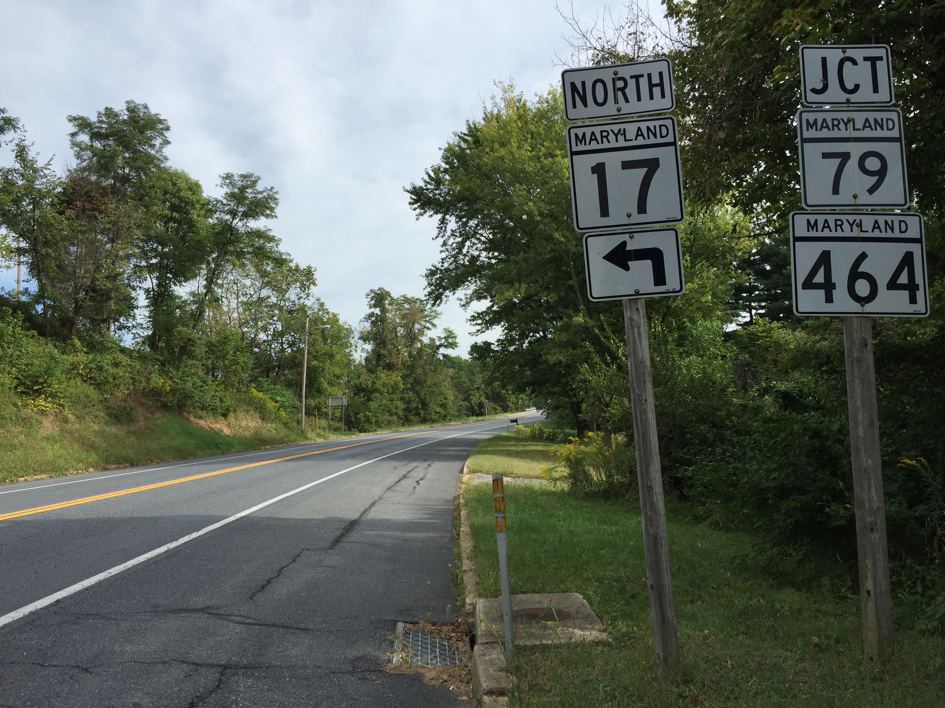 View north along Maryland State Route 17 (Petersville Road) at Wenner Branch in Brunswick, Frederick County, Maryland